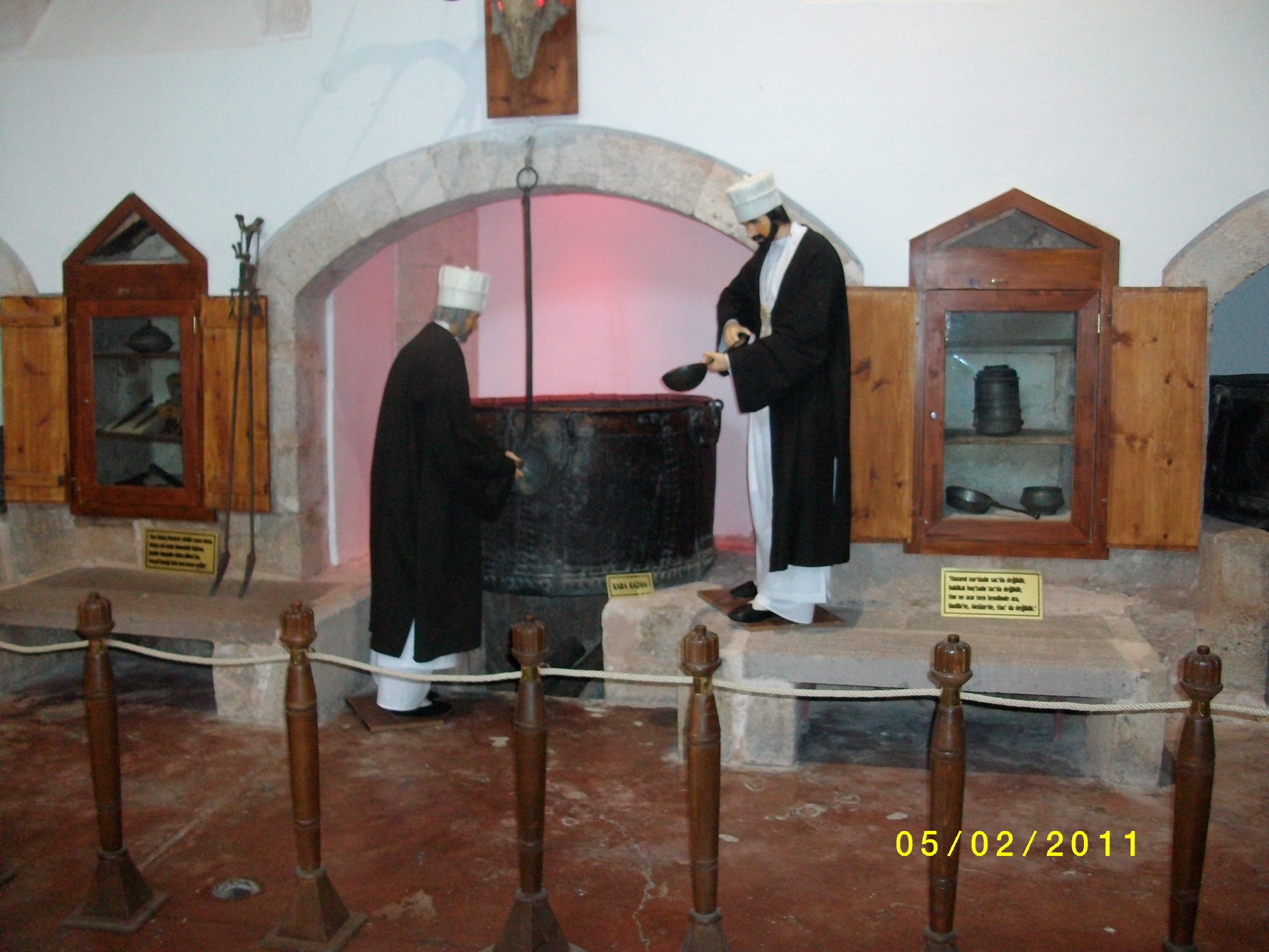 museum